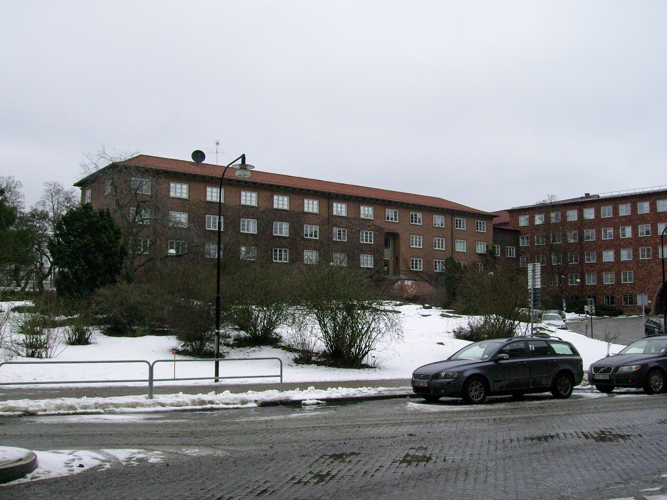 Krigsarkivet in Stockholm 2009.